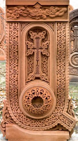 Ա-shaped khatchkar